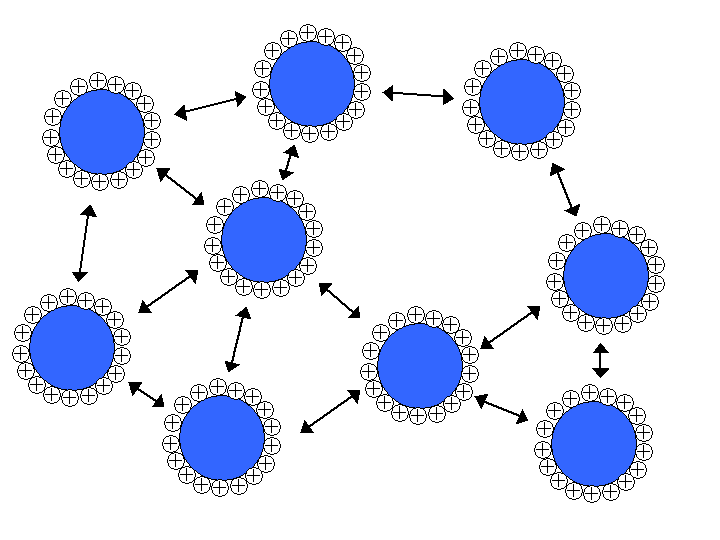 Visualization of electrostatic dispersing agents